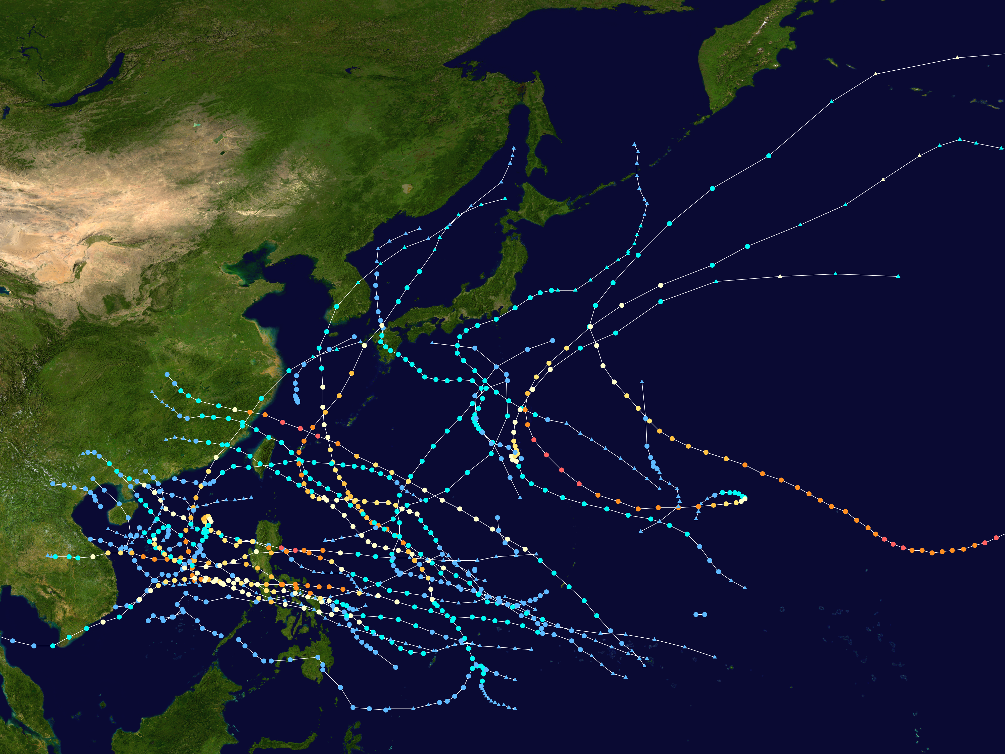 This map shows the tracks of all tropical cyclones in the 2006 Pacific typhoon season. The points show the location of each storm at 6-hour intervals. The colour represents the storm's maximum sustained wind speeds as classified in the Saffir-Simpson Hurricane Scale (see below), and the shape of the data points represent the type of the storm. Saffir–Simpson scale Tropical depression≤38 mph≤62 km/h Category 3111–129 mph178–208 km/h Tropical storm39–73 mph63–118 km/h Category 4130–156 mph209–251 km/h Category 174–95 mph119–153 km/h Category 5≥157 mph≥252 km/h Category 296–110 mph154–177 km/h Unknown Storm type Tropical cyclone Subtropical cyclone Extratropical cyclone / Remnant low / Tropical disturbance / Monsoon depression